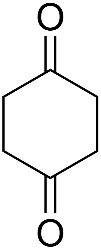 chemical structure of 1,4-cyclohexanedione